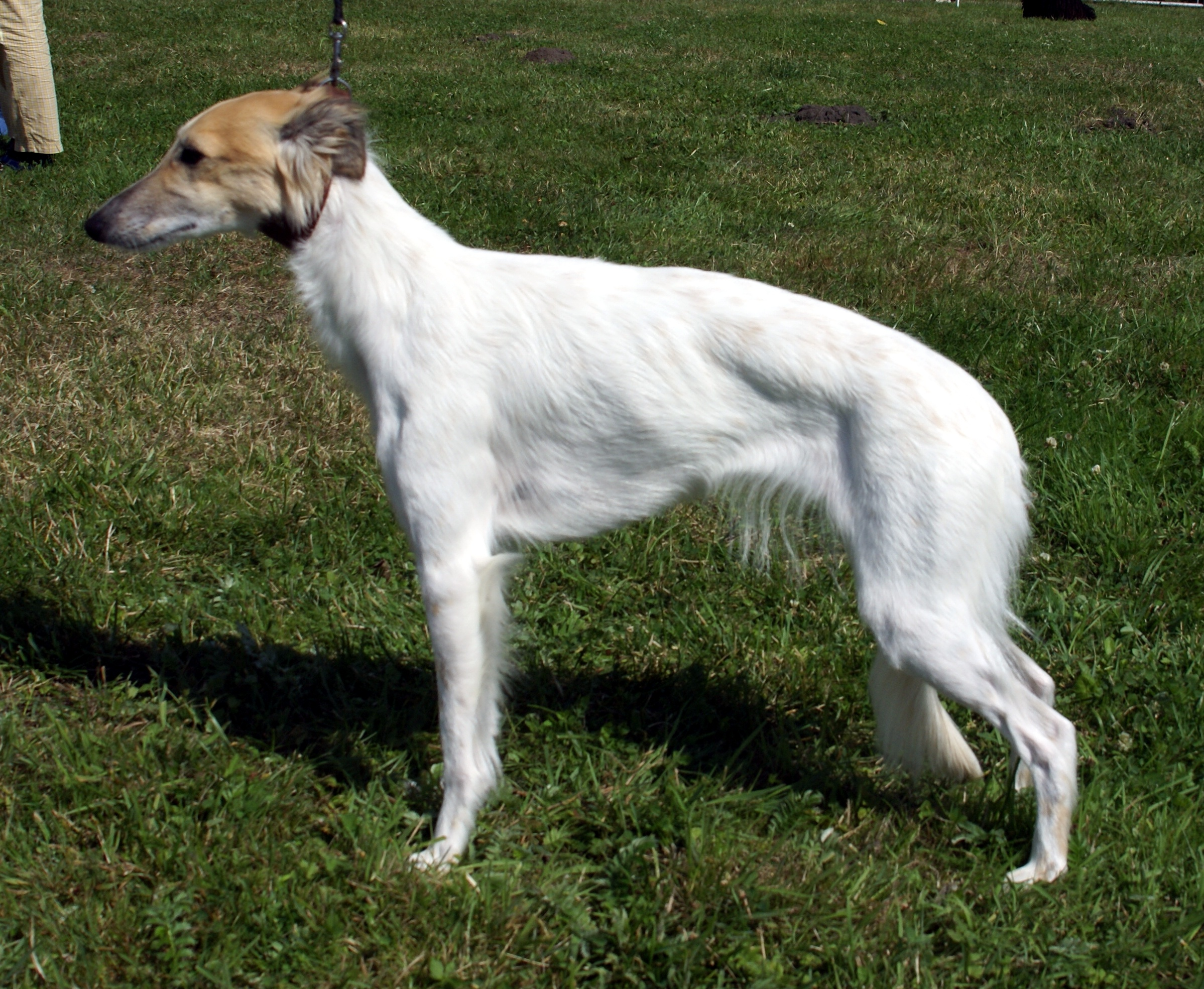 Longhaired Whippet during dogs show in Bratislava